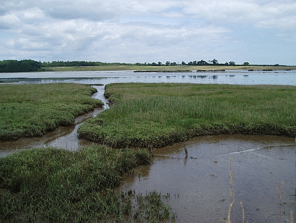 Marshland near Blythburgh. View over the tidal River Blyth.